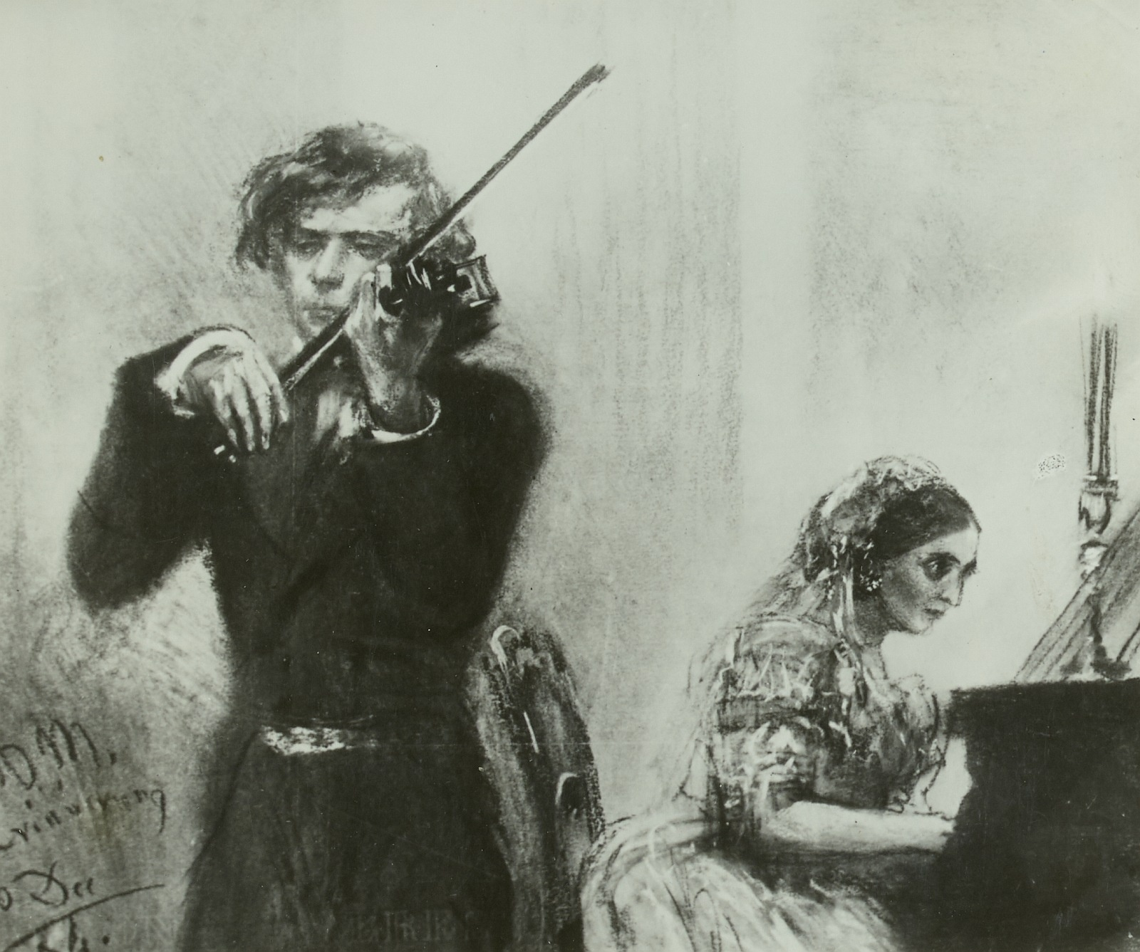 Violinist Joseph Joachim and pianist Clara Schumann. Reproduction of pastel drawing (now lost).